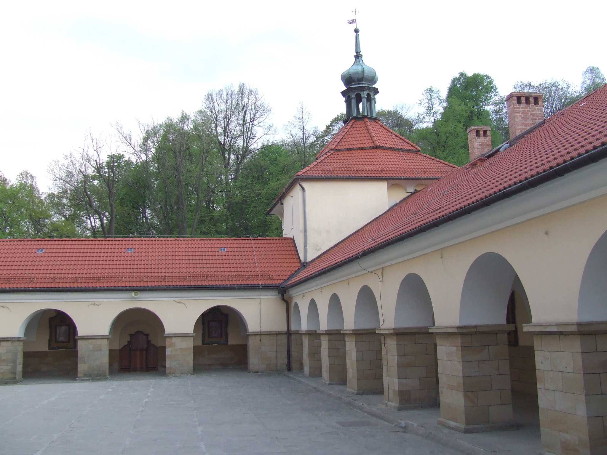 the gallery of the sanctuary/ krużganki sanktuarium